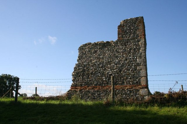 Wallingford castle 3 Biggest part of wall that can be seen.